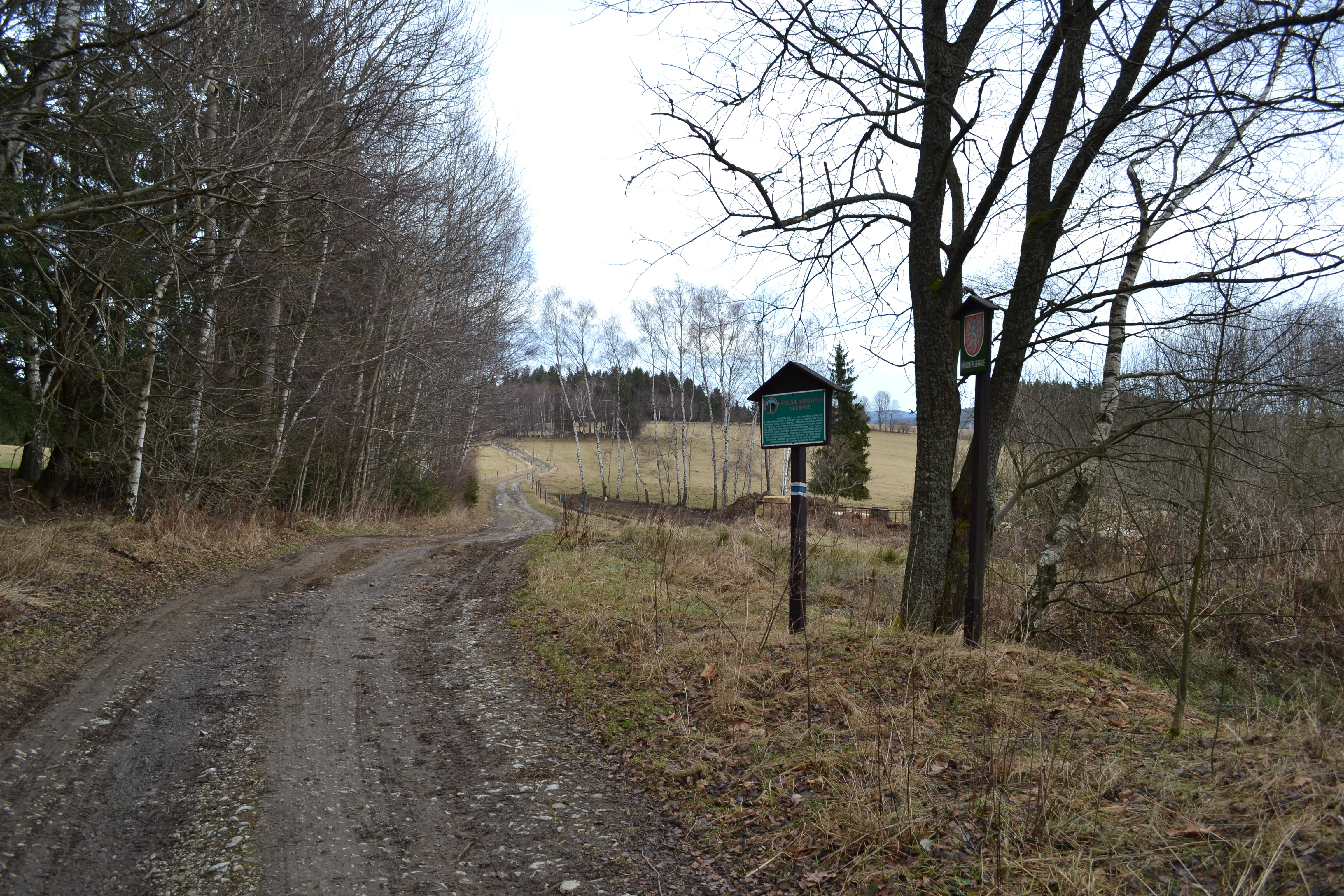 Chřepice nature reserve near Chřepice (part of the town of Čachrov), Klatovy district, Czech Republic.